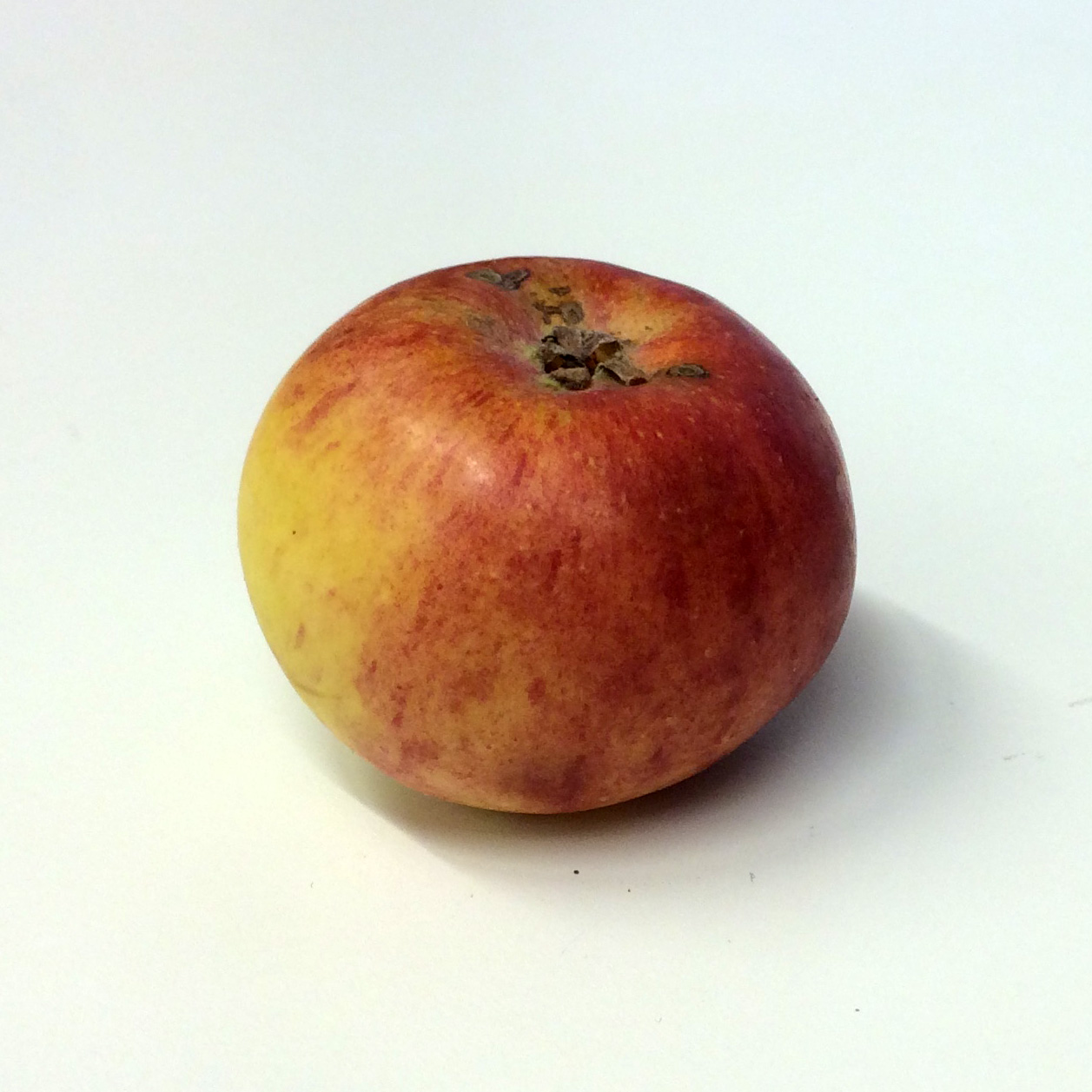 Apple of the cultivar Hampus, photographed in conjunction with the Apple Festival at Nordiska museet, Stockholm, Sweden in September 2014.